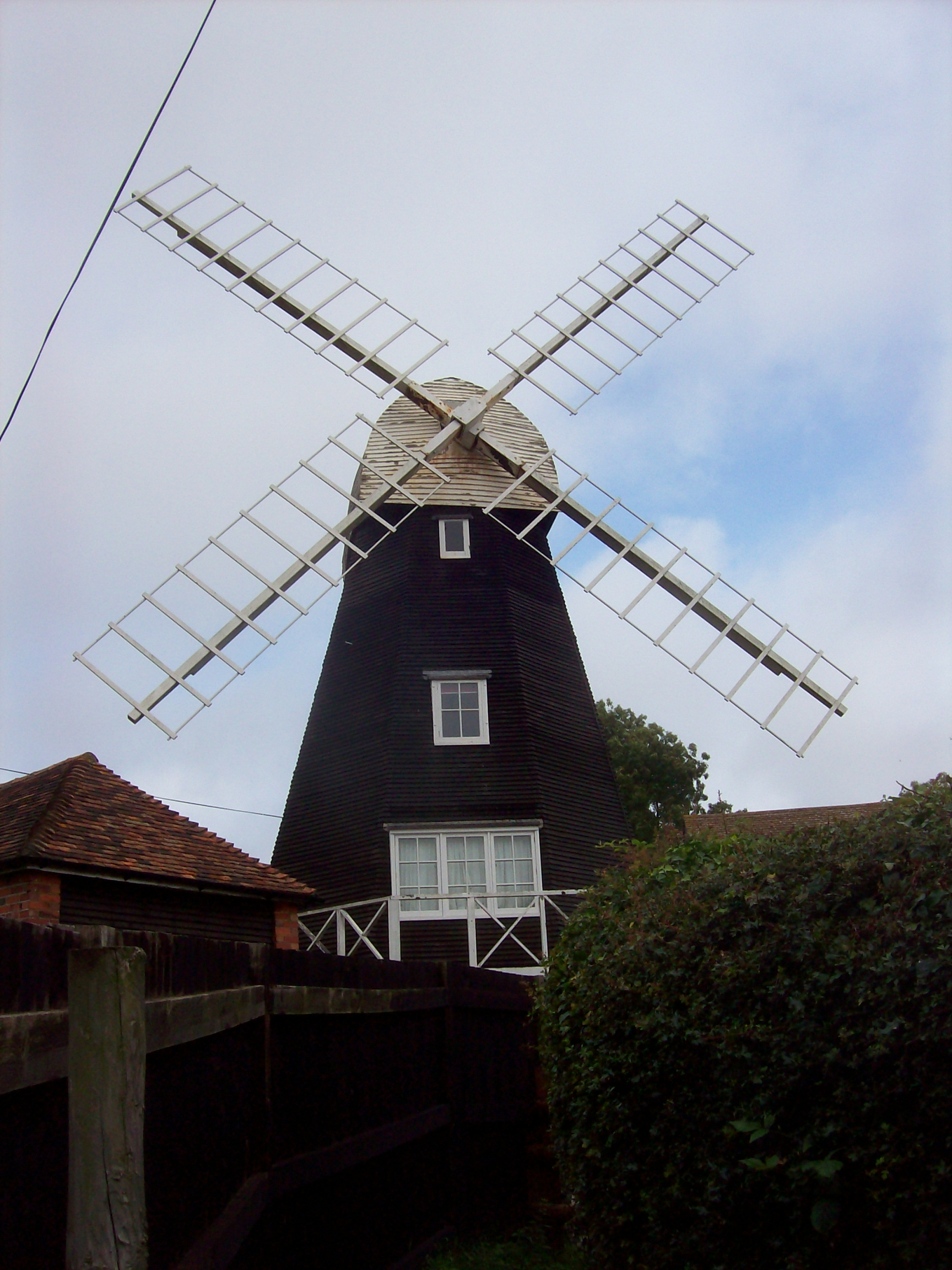 The house converted windmill at Charing, Kent.